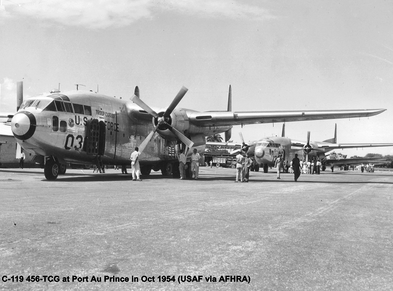 USAF 456th Troop Carrier Group C-119s deployed at Port Au Prince Airport, Haiti. October 1954 United States Air Force photograph via US National Archives